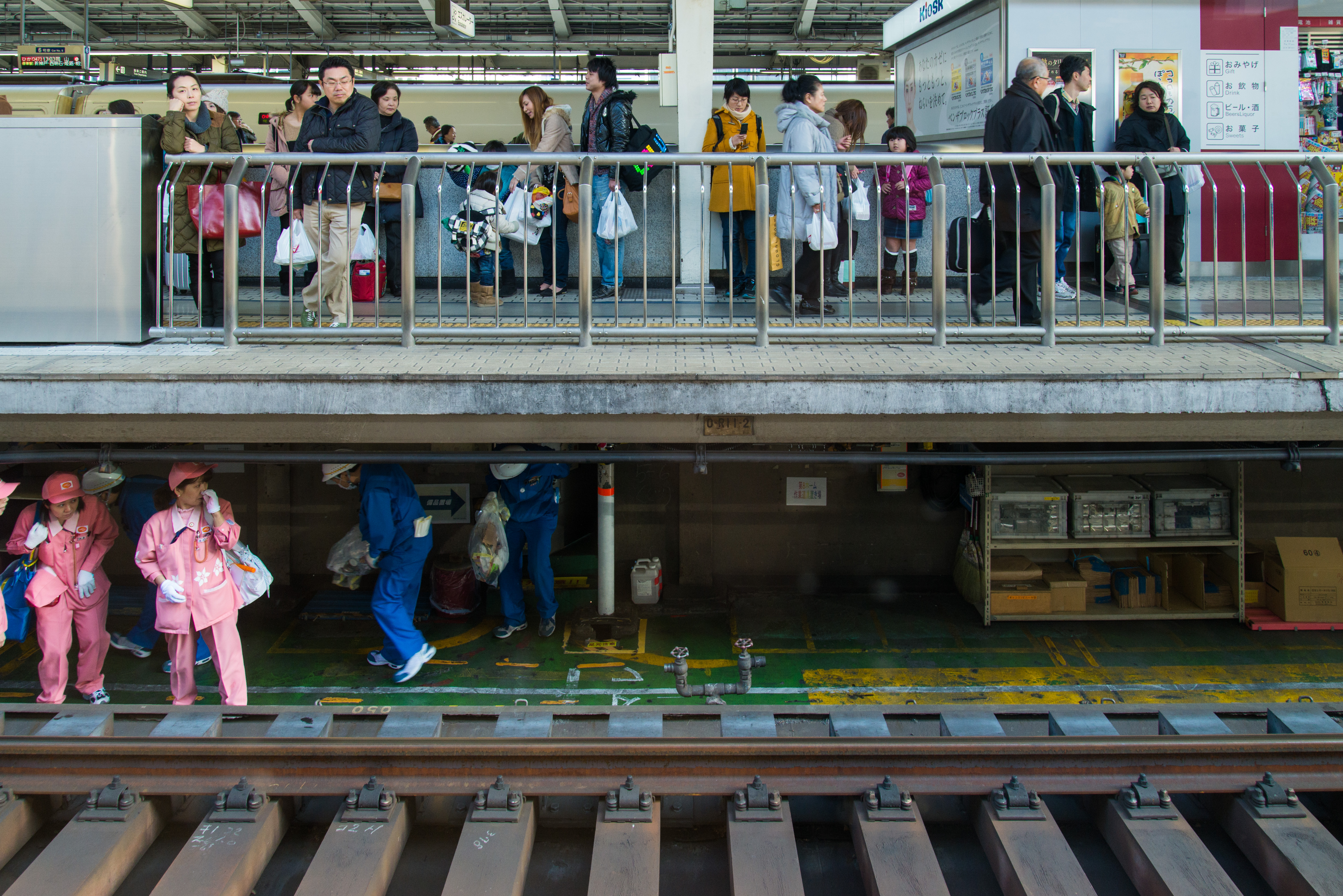 Cleaning staff of Shinkansen are waiting under the platform. (Tokyo Station)